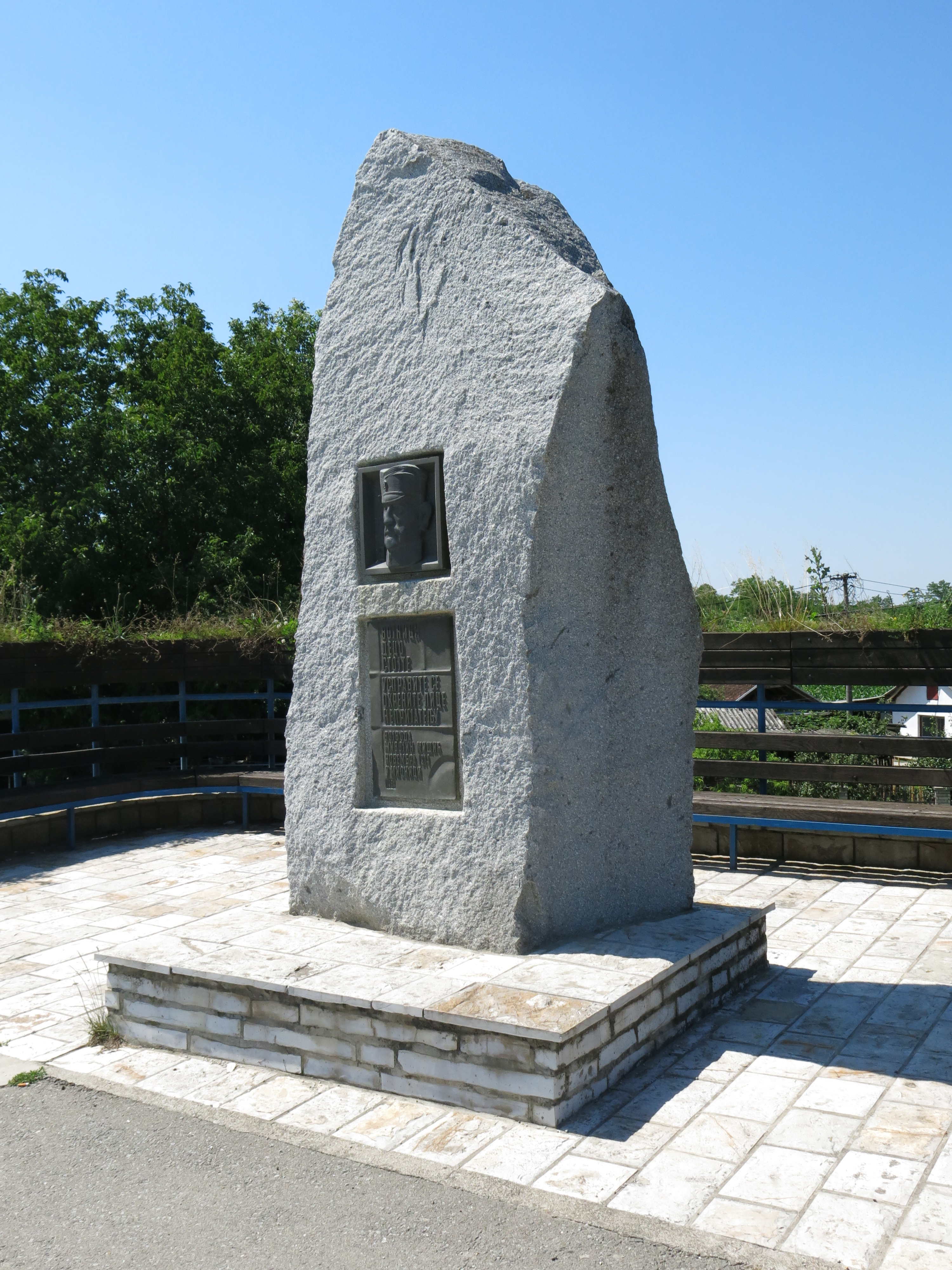 Mionica, Monument to Živojin Mišić on the bridge